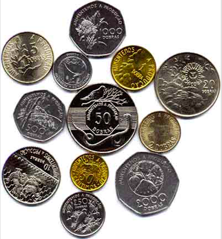 Sample of Sao Tome Coins serie.